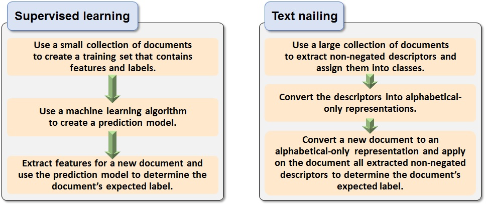 A comparison between supervised learning versus Text Nailing.